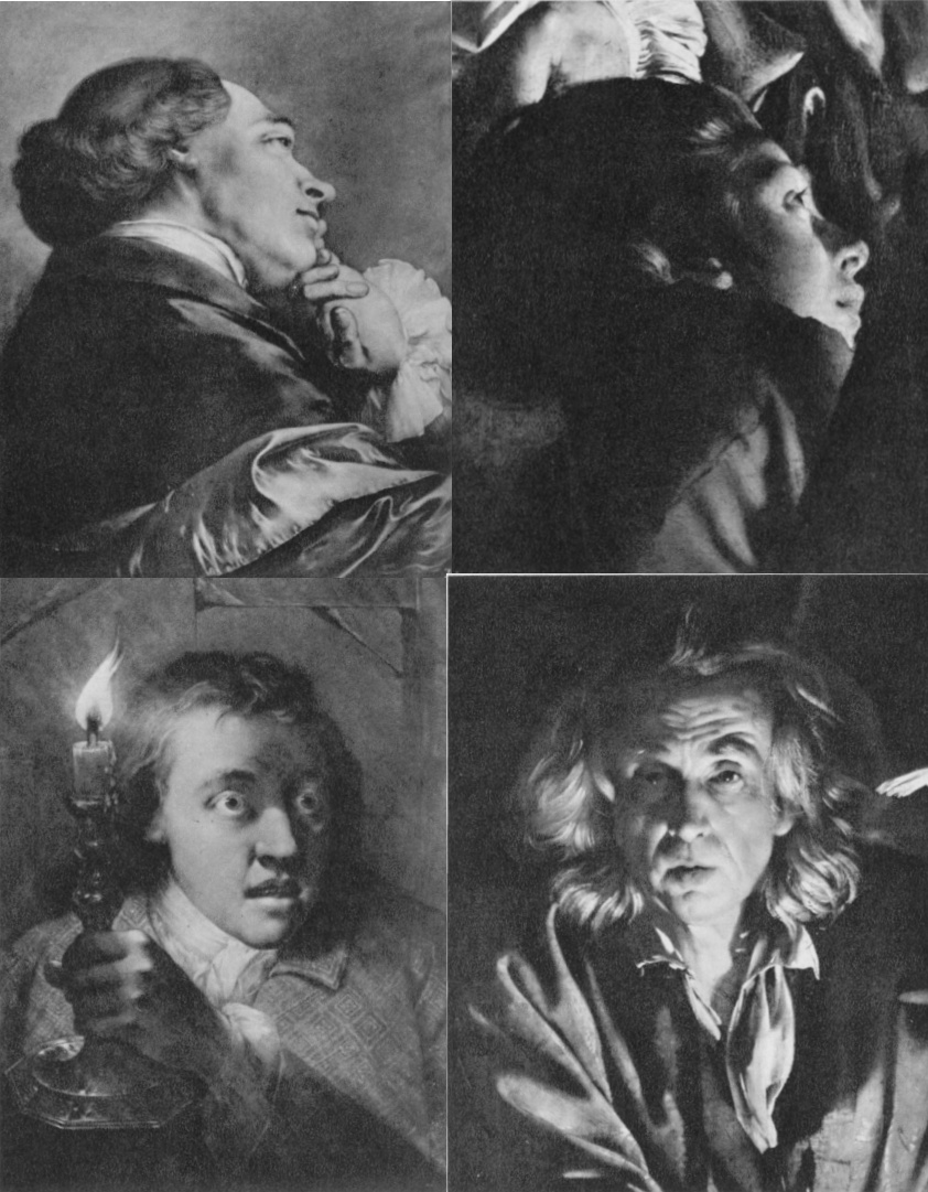 Details from works by Joseph Wright of Derby and Thomas Frye